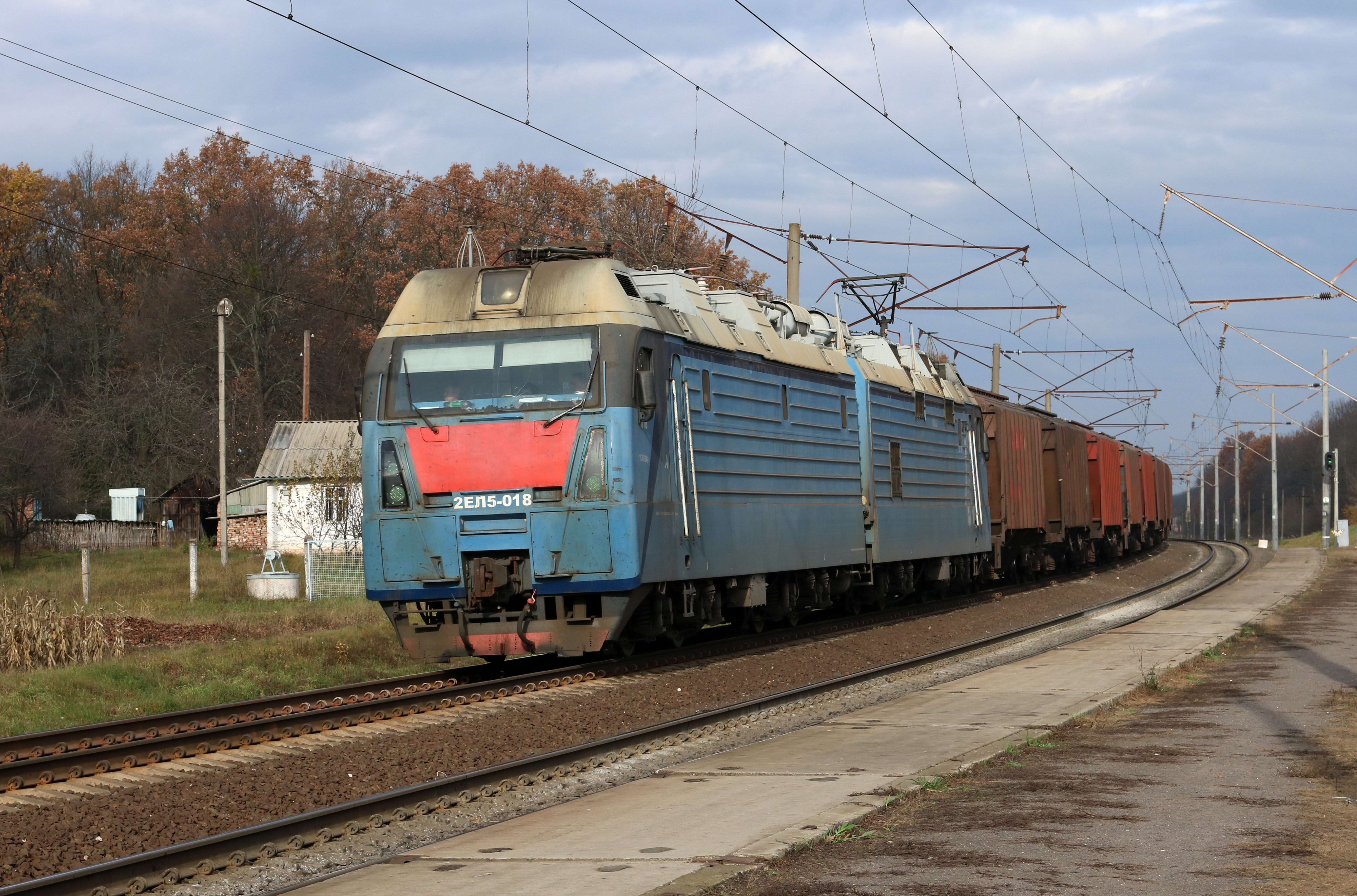 2EL5-018 electric locomotive passing with a freight train through the Desenka railway halt. Manufactured 04.2011 in Lugansk. Ukraine.